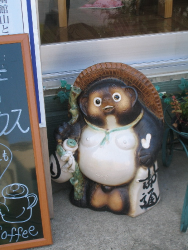 Shigaraki yaki at the entrance of a caffe.